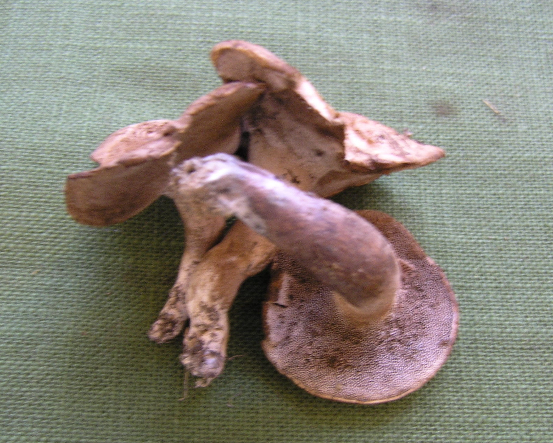 Sarcodon scabrosum, exposed at the Mostra del fungo of Ceva